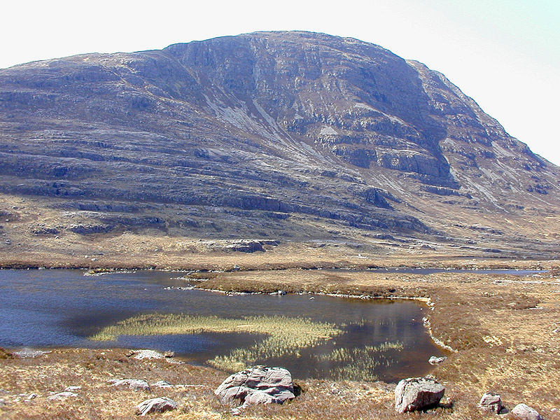 Lochan Domhain An attractive lochan on the stream which drains Loch an Eion. Beinn na h-Eaglaise provides the impressive backdrop.